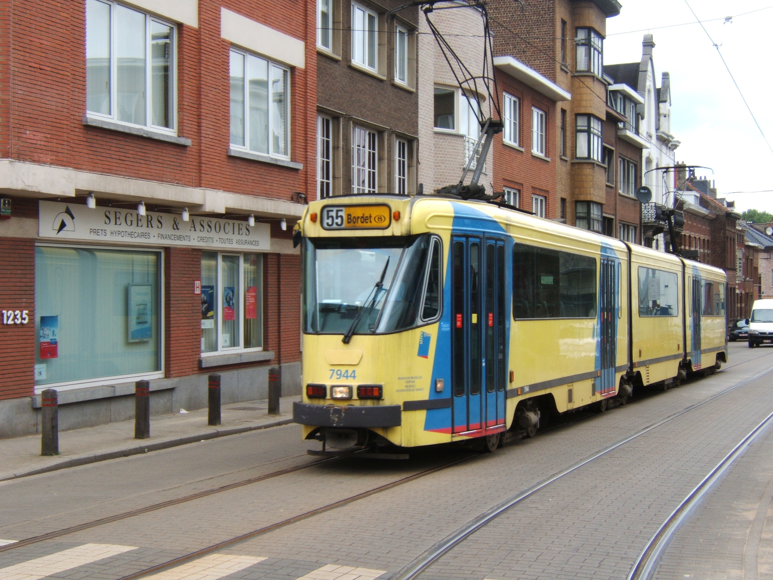 Tram 55 in Uccle. The line 55 no longer runs there. (Now part off line 51)